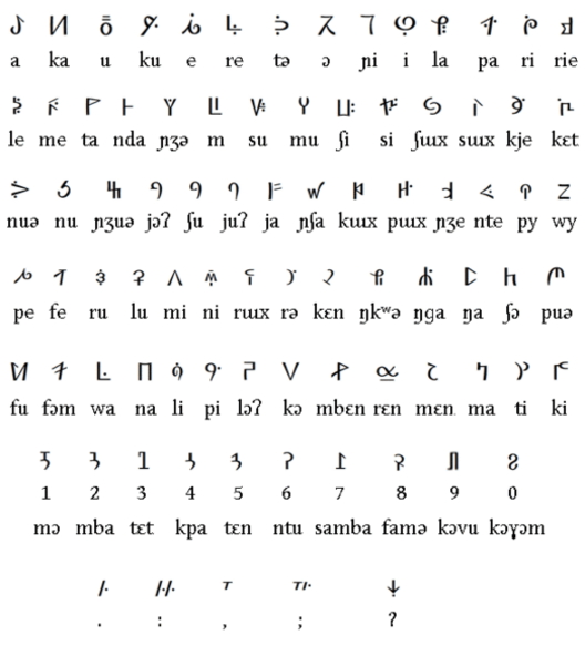 80 basic glyphs, numerals, and most punctuation of the modern Bamum syllabary